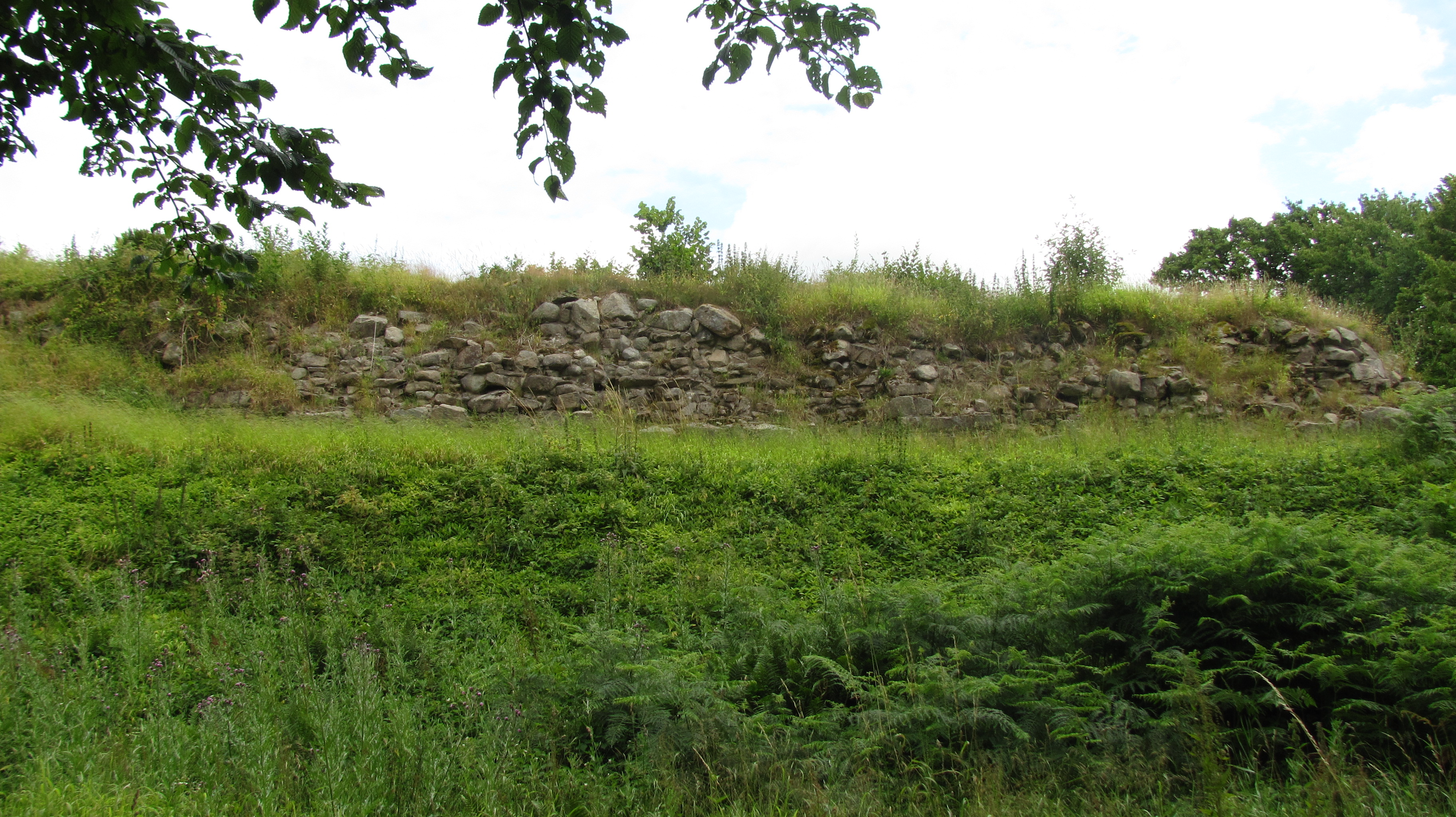 Stonewall, Gamleborg Castle, Bornholn, Denmark